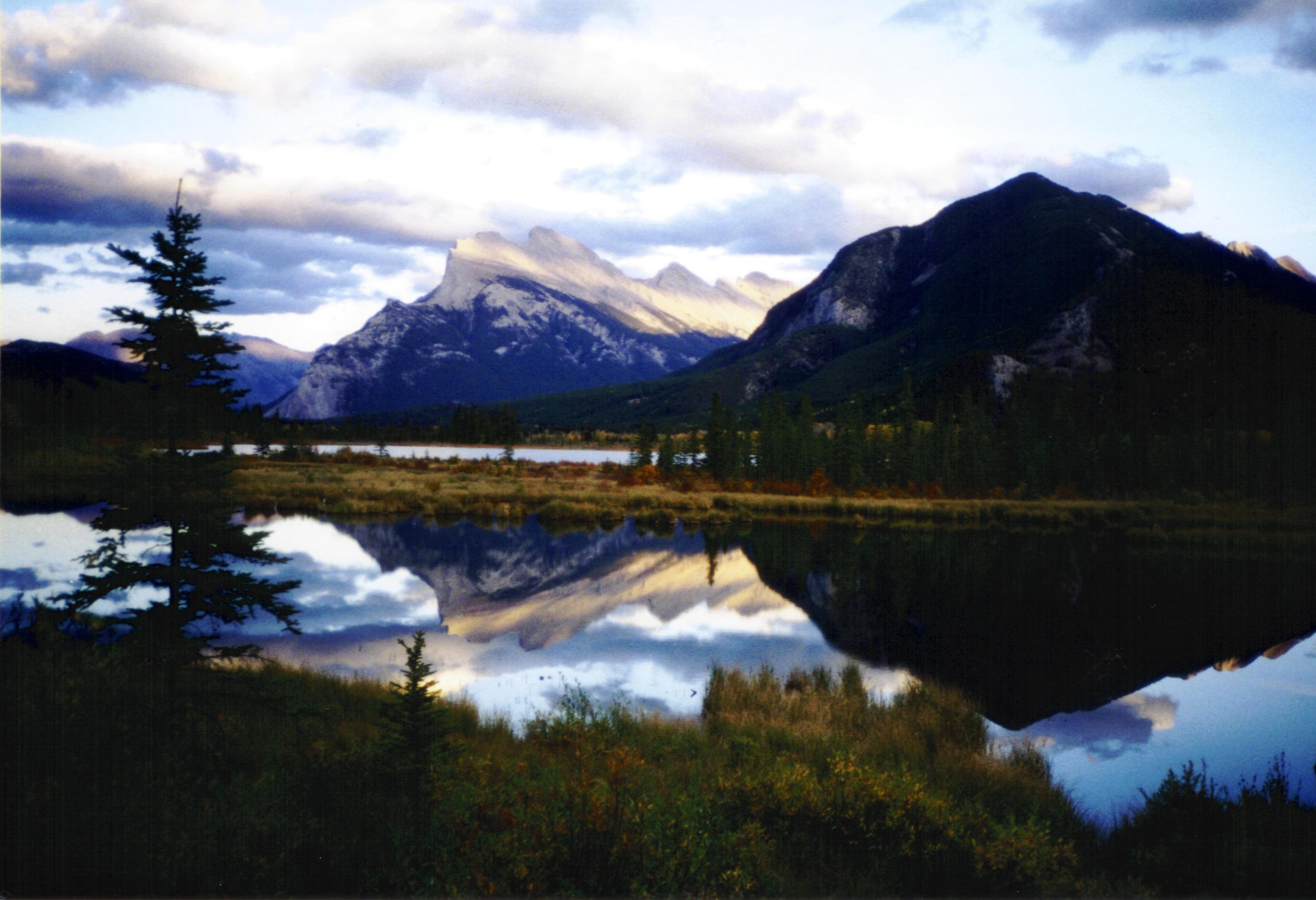 Photo of Vermillion Lakes near sunset (Mount Rundle to left), Banff National Park, Alberta, Canada